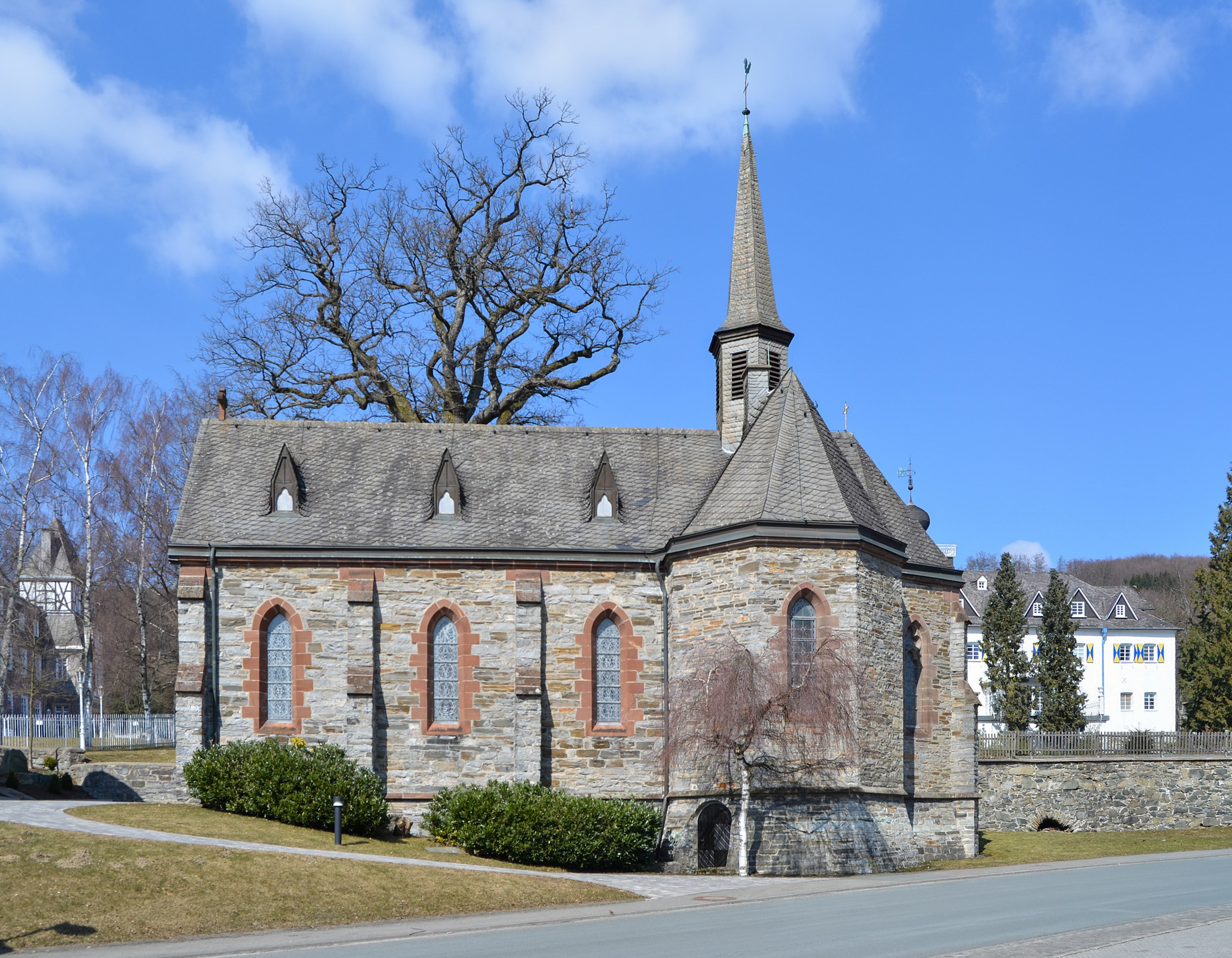 Olsberg (North Rhine-Westphalia, Germany) – district Gevelinghausen – Catholic Mary Magdalene Church This image shows a heritage building in Germany, located in the North Rhine-Westphalian city Olsberg (no. 69). This photograph was taken with a Nikon D7000